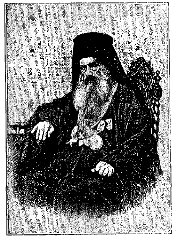 Theophan Siatistevs